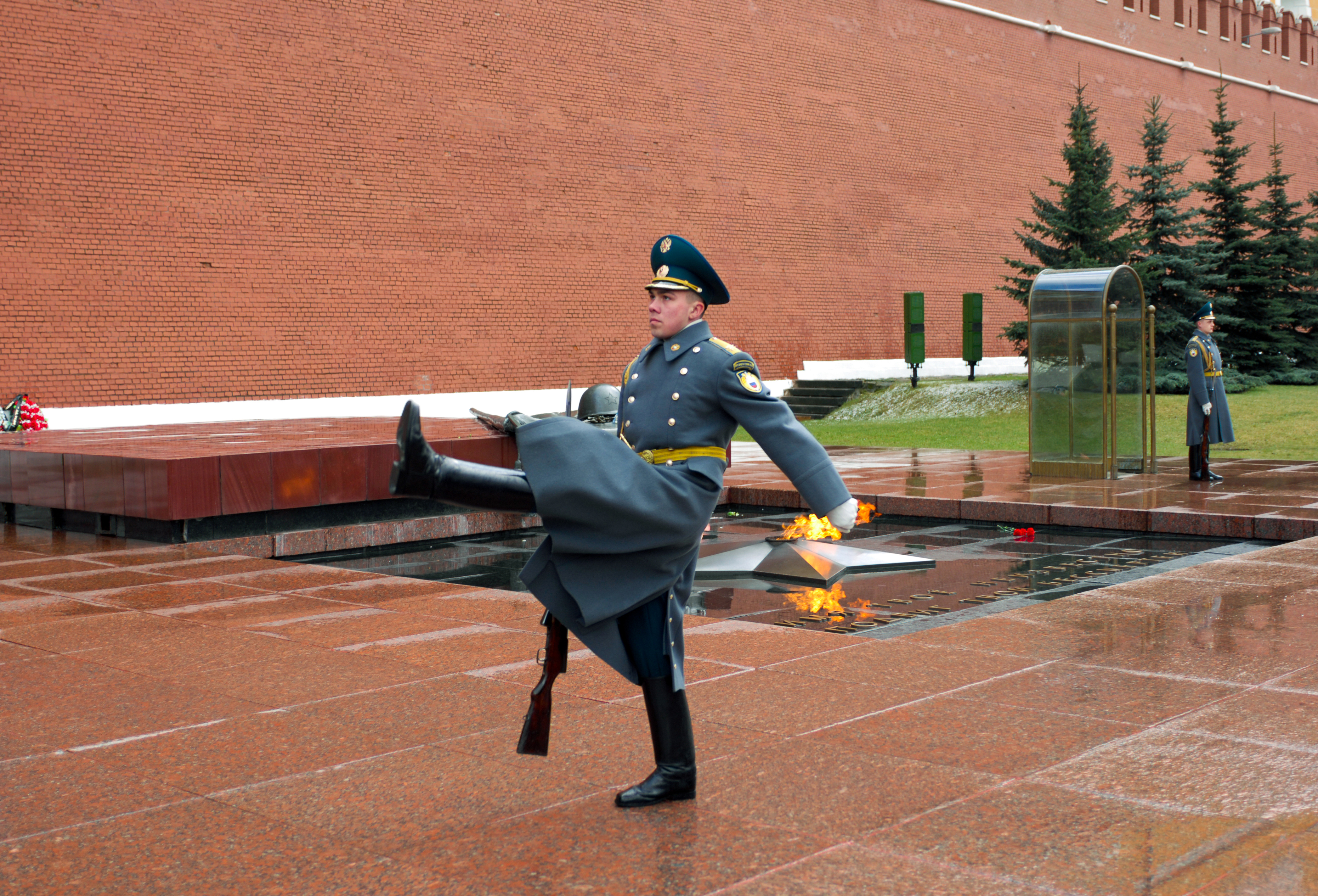 Members of the Kremlin Regiment conduct an hourly changing of the guards at the Tomb of the Unknown Soldier (Могила Неизвестного Солдата), located in the Alexander Garden , along the Wall of the Kremlin.